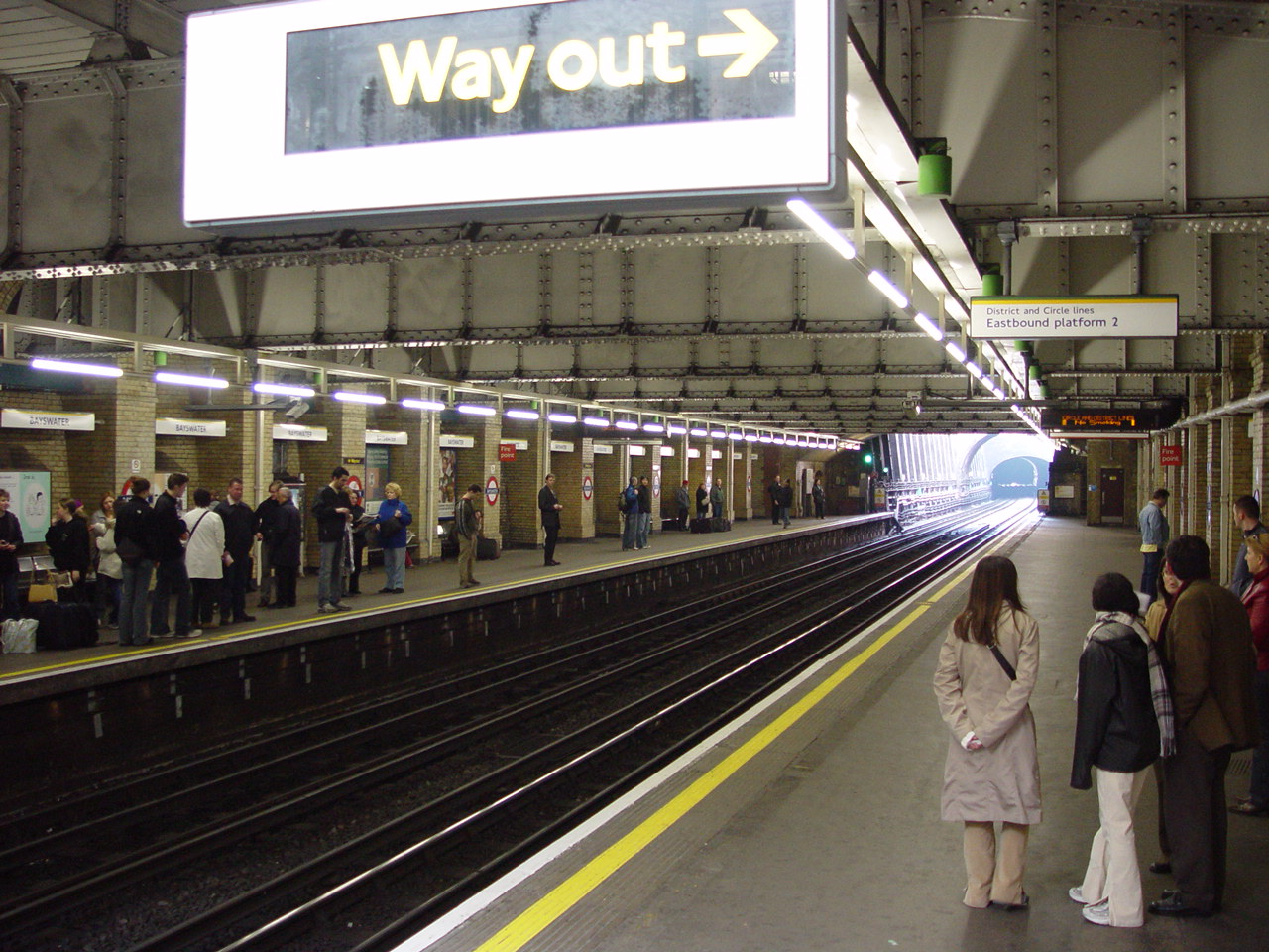 Bayswater Interior 4 Photo by Globe199, 22 March 2003